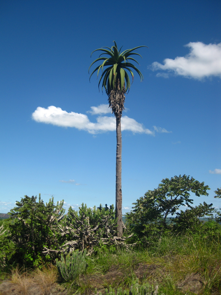 A 5m tall Zimbabwe aloe specimen on a hill close to Chimoio town, Mozambique